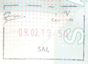 New style entry stamp of Cape Verde, issued at Amilcar Cabral Airport at Sal island.